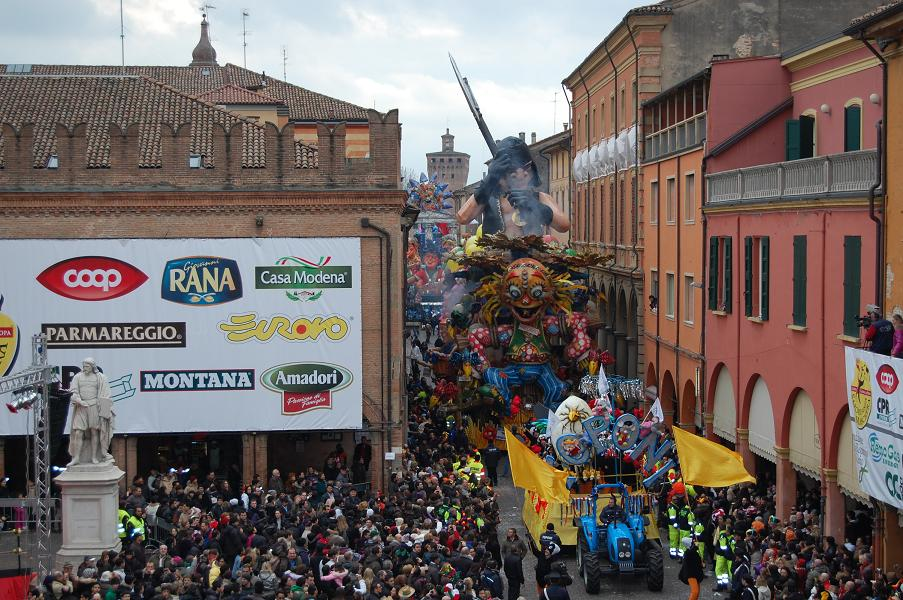 Carnival parade in Cento (Italy).